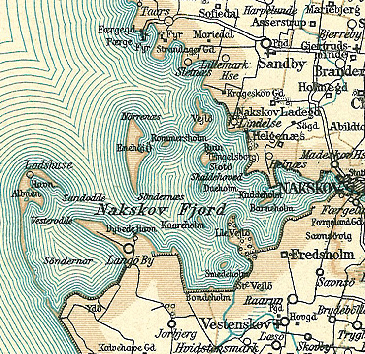 Map of Nakskov Fjord on Lolland in Denmark